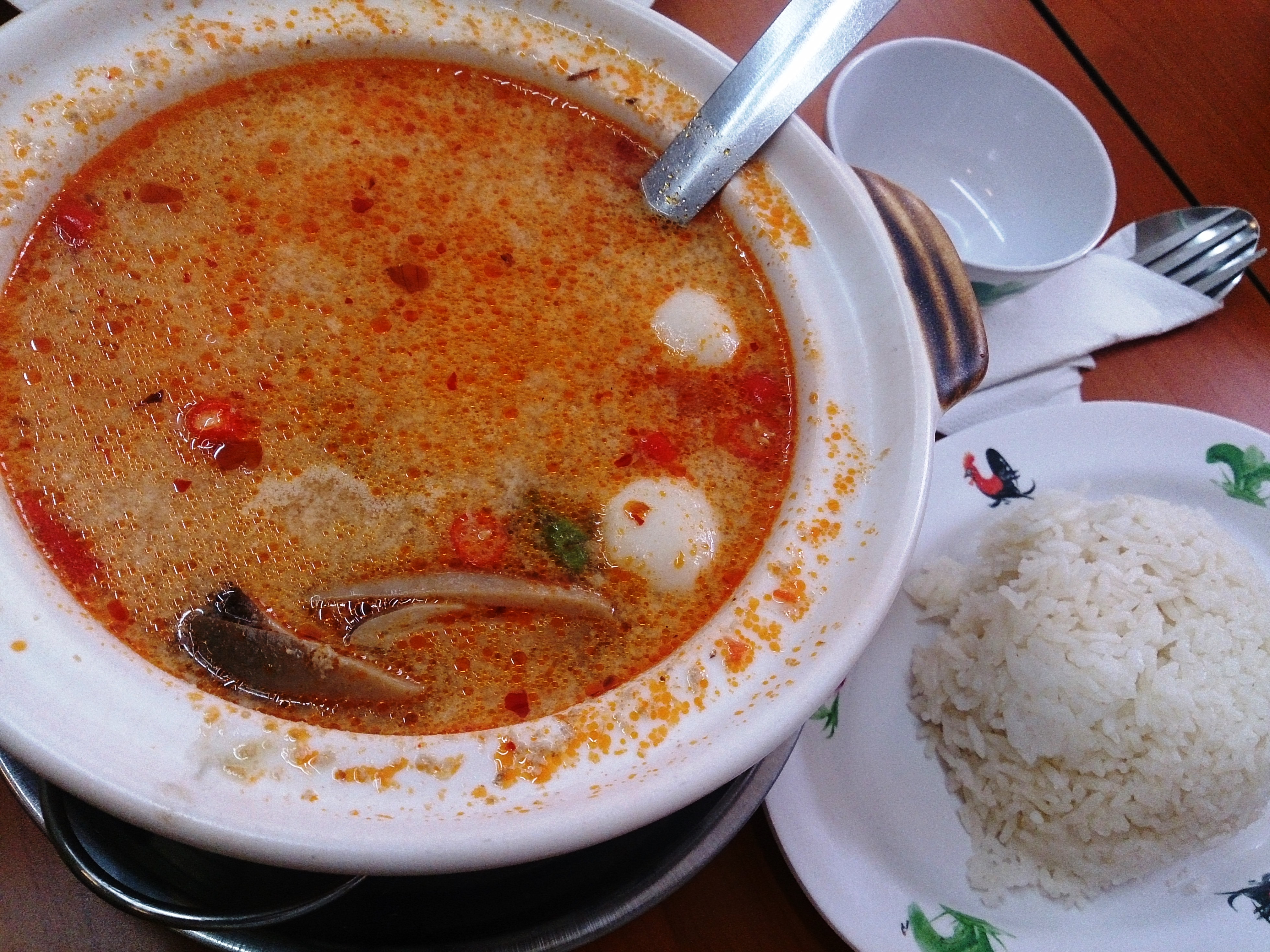 Thai food